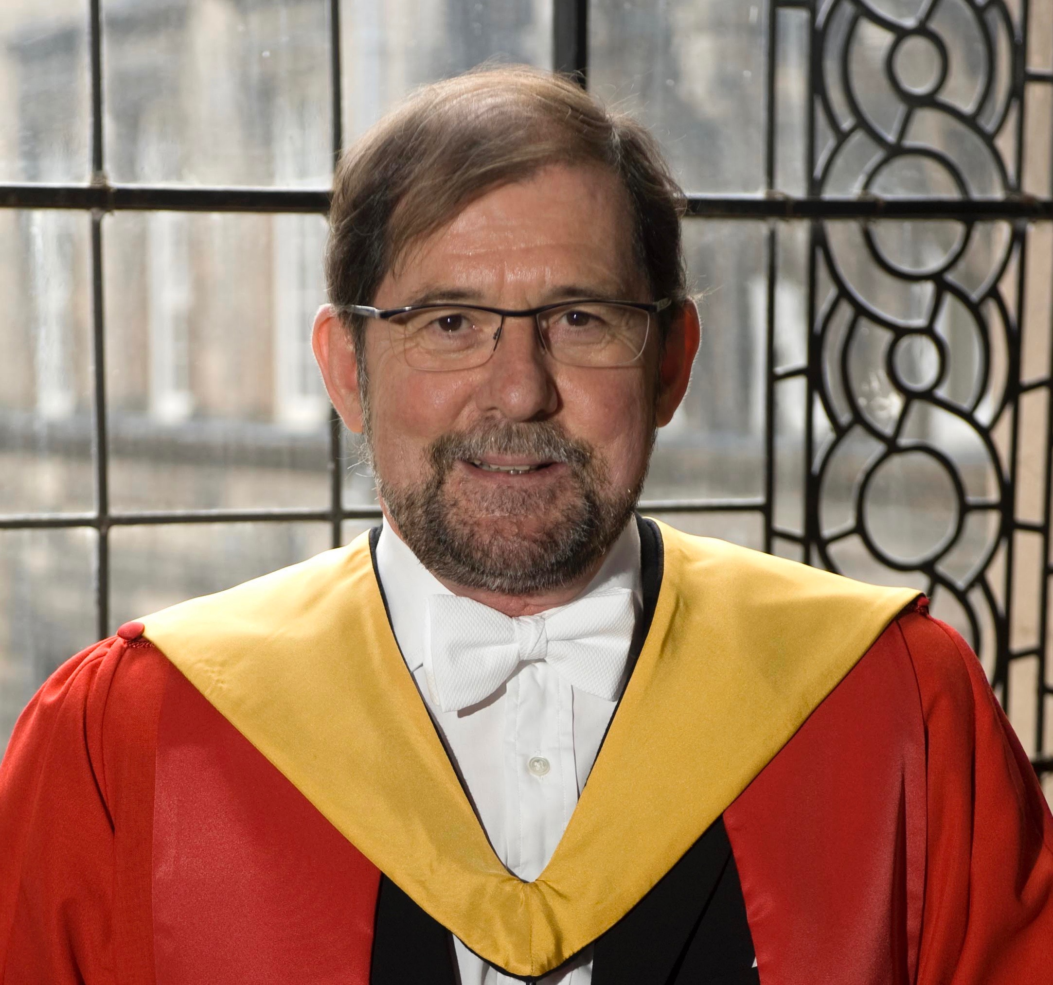 Edinburgh Graduation